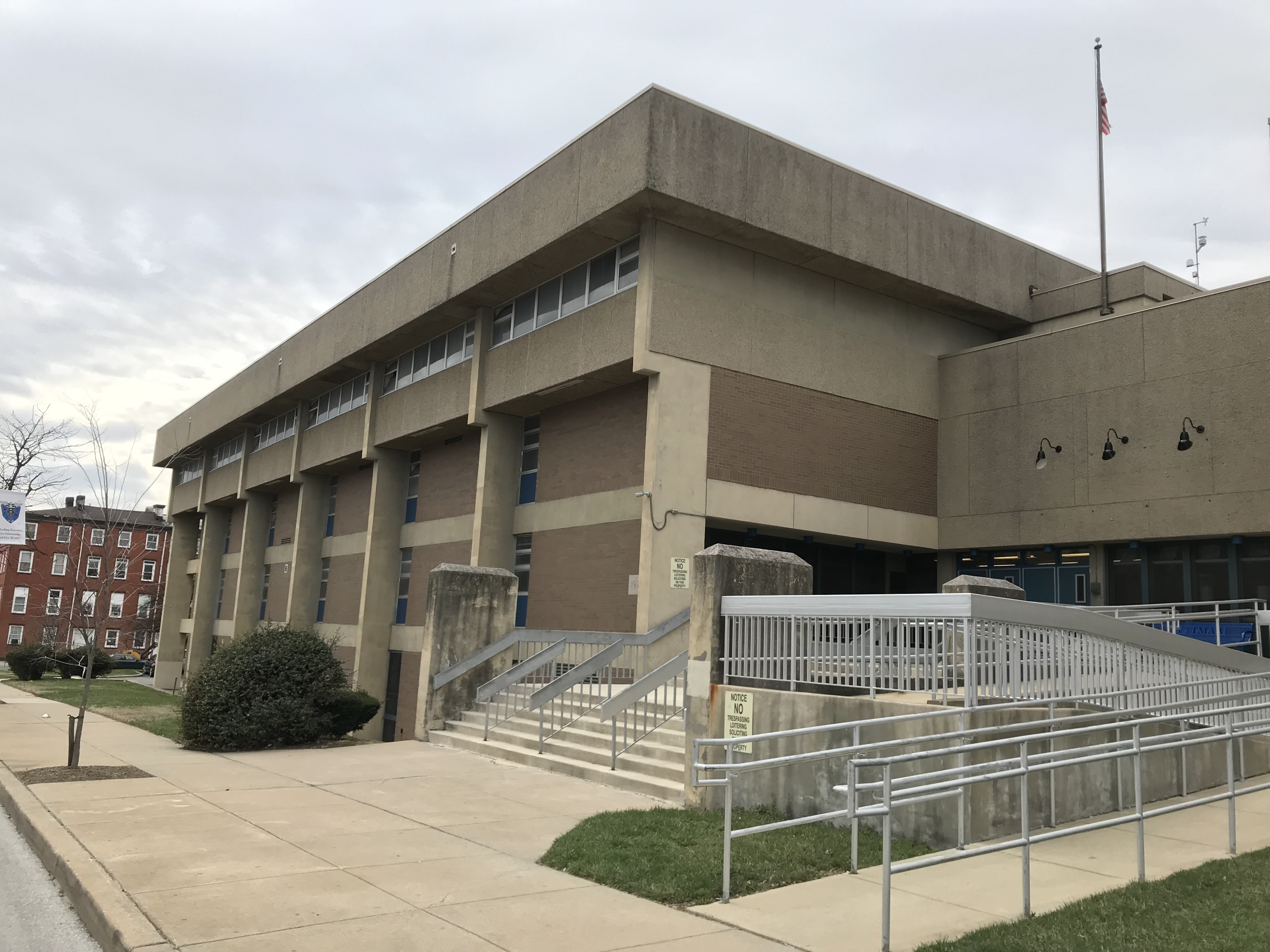 Photograph by Eli Pousson, 2018 March 6.